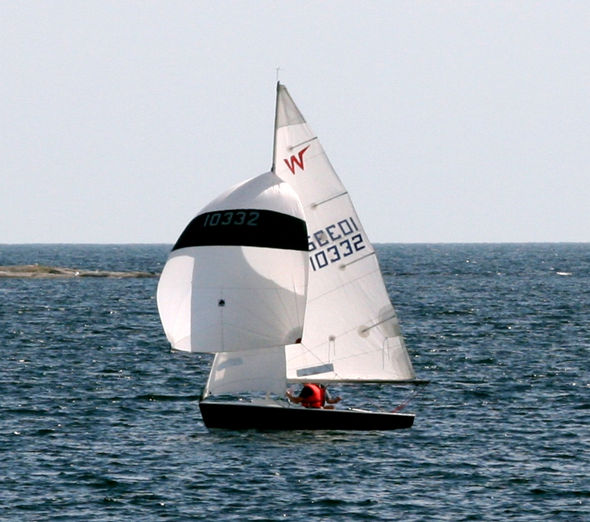 Wayfarer